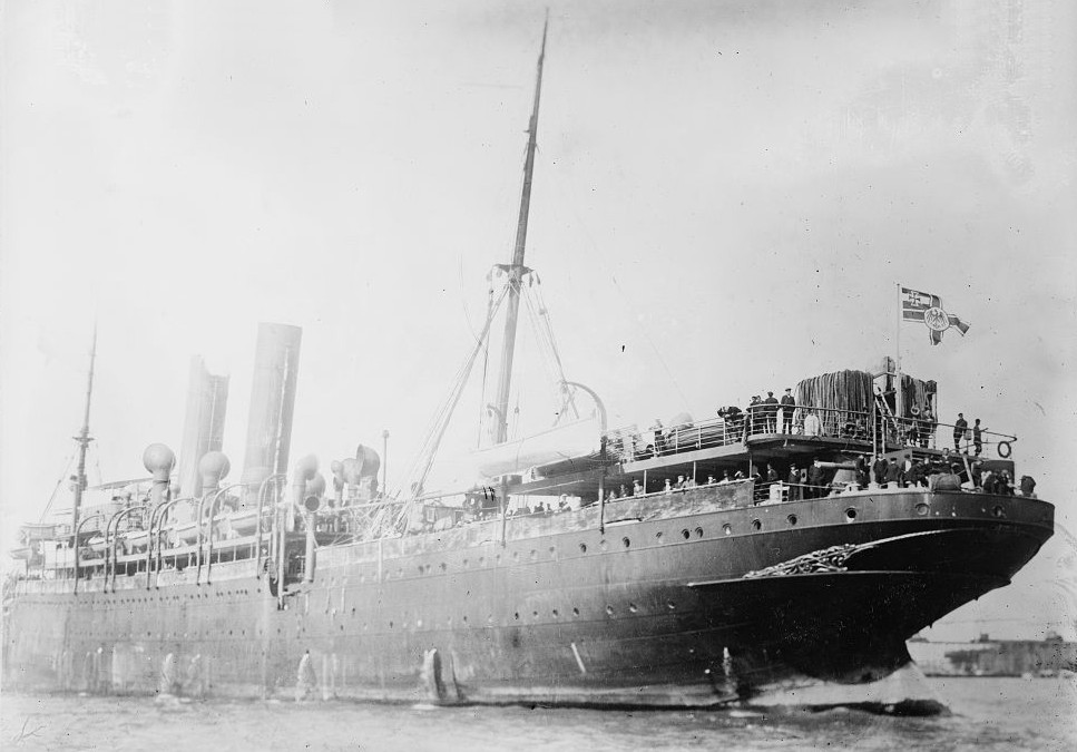 The German Norddeutscher Lloyd line passenger steamer turned raider SS Prinz Eitel Friedrich photographed in the United States before the First World War.